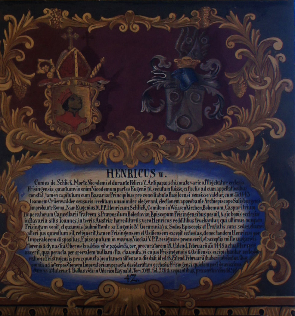 Wappentafel von Heinrich II. Schlick, Fürstbischof von Freising, im Fürstengang zwischen Fürstbischöflicher Residenz und Freisinger Dom. Links das geistliche, rechts das persönliche Wappen, darunter ein lateinischer Text mit kurzer Biographie.